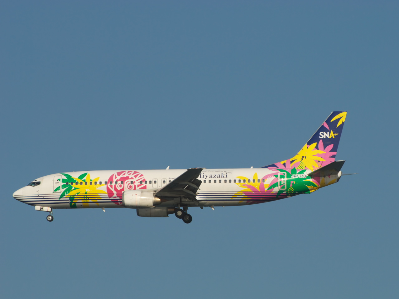 Boeing 737-46Q(JA737B) lands to runway 34L of Tokyo international airport from south side. It taken by Ukishima park in Kawasaki,Kanagawa. [MAP by ALPSLAB]